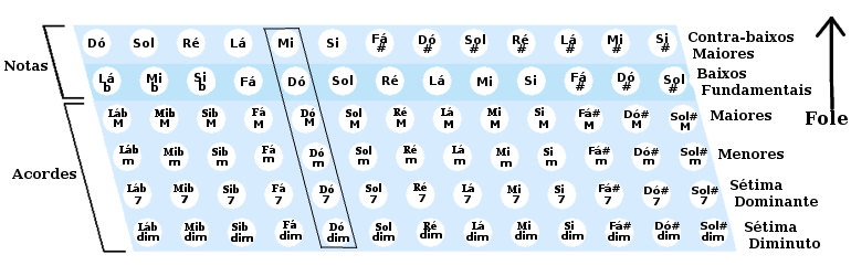 a bass scheme of an 80 bass accordion